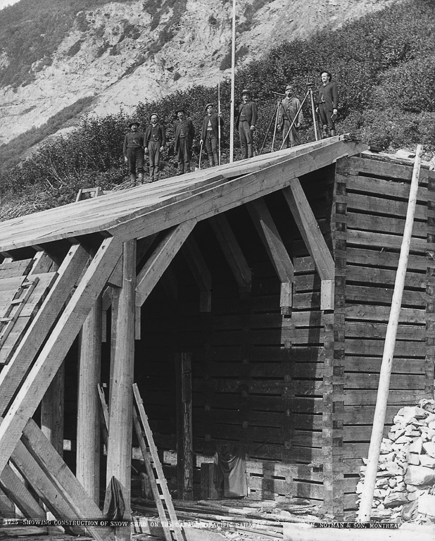 N-0000.25.1060 Construction of snow shed on the C.P.R., Glacier Park, BC, 1887, copied about 1902 William McFarlane Notman About 1902, 19th century or 20th century Notman photographic Archives - McCord Museum N-0000.25.1060 Construction d'un paravalanche sur la ligne du CP, Parc des Glaciers, C.-B., 1887, copie réalisée vers 1902 William McFarlane Notman Vers 1902, 19e siècle ou 20e siècle Archives photographiques Notman - Musée McCord To see the image file on the McCord Museum website, click on the following link: Pour voir la fiche descriptive de cette photographie sur le site Web du Musée McCord, cliquer le lien suivant